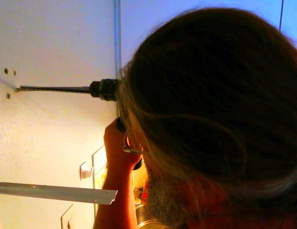 Wall drilling (for mounting new cupboard on wall)